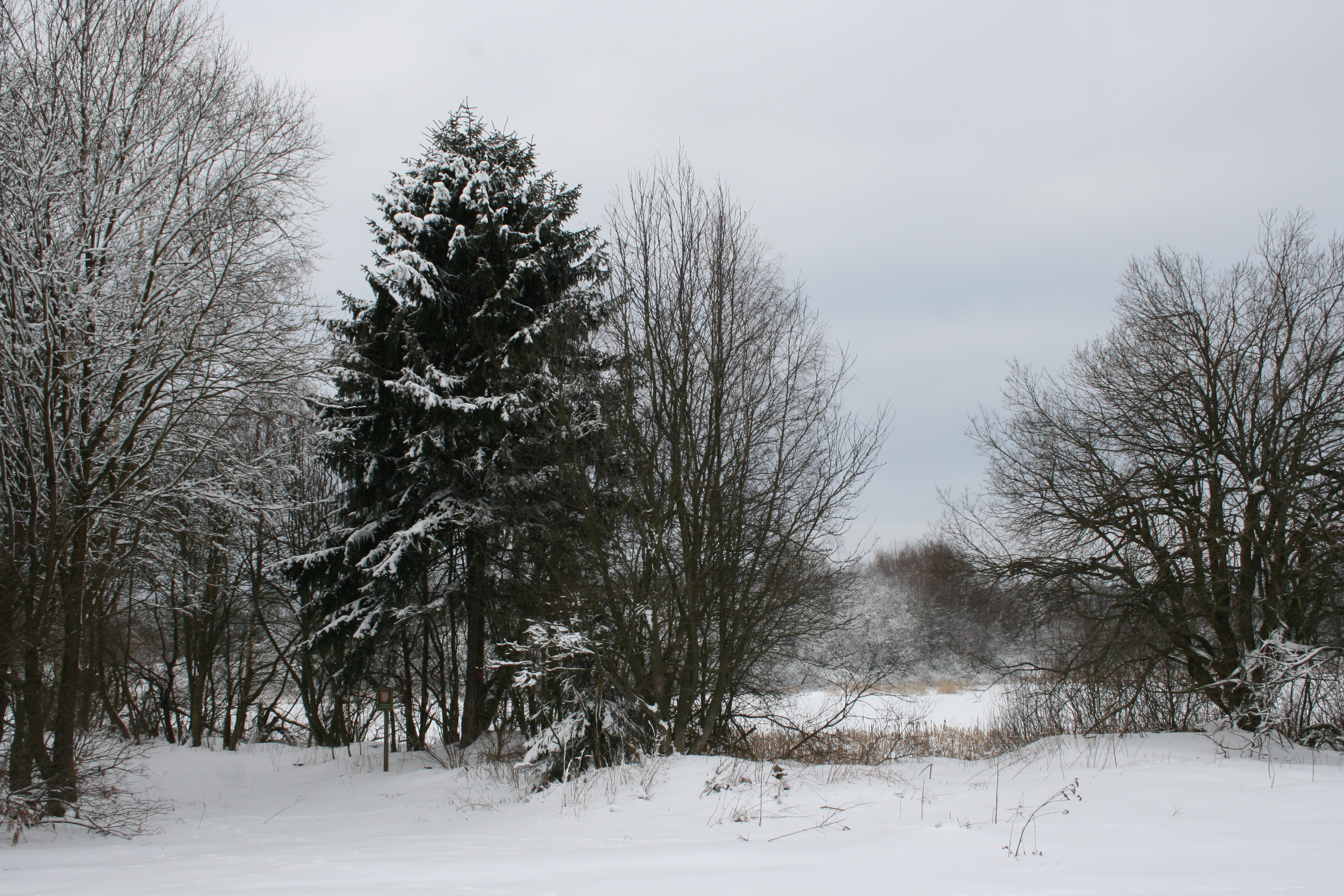 Natural reservation Skalák near Senotín, Jindřichův Hradec District, Czech Republic